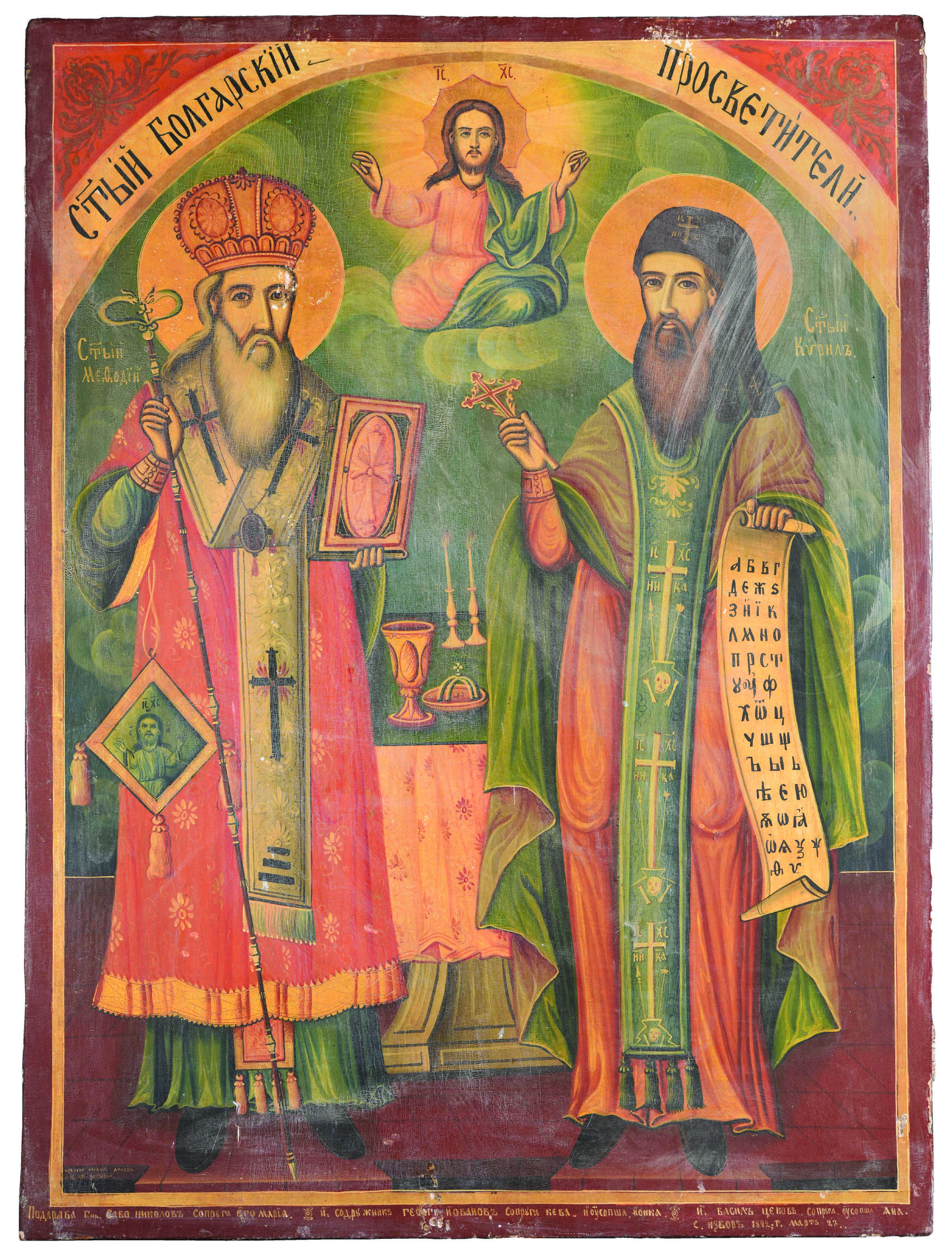 Sts. Cyril and Methodius Bulgarian Enlighteners Icon by Avram Dichov.